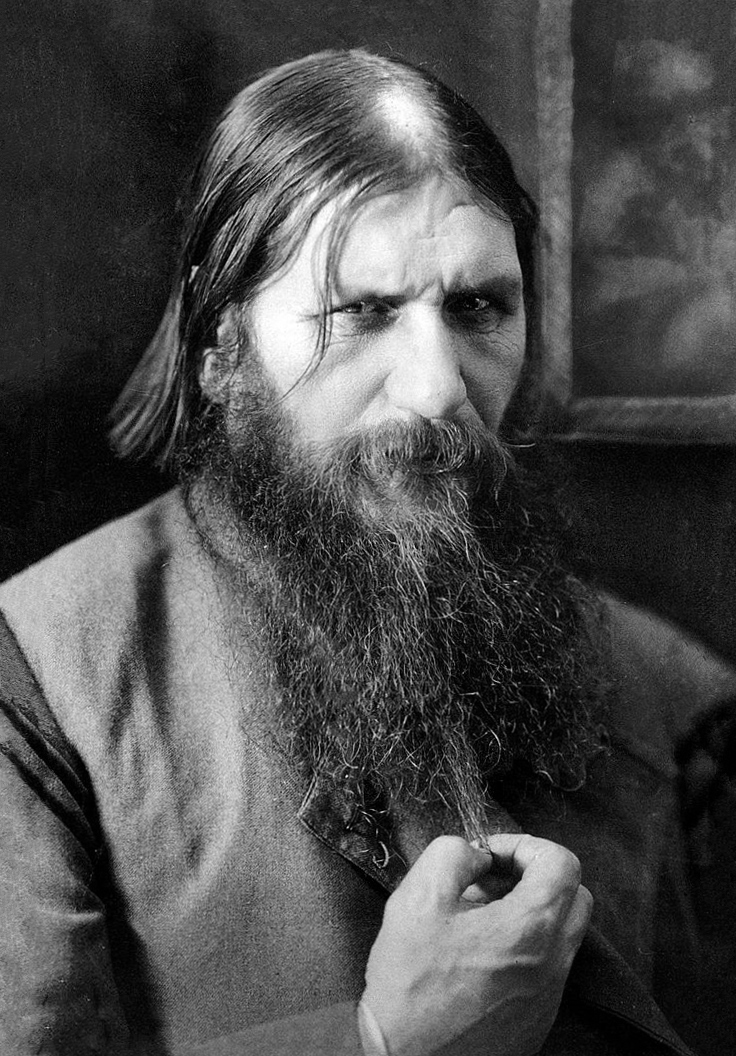 Grigori Rasputin (1864–1916)